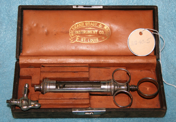 Combined syringe and aspirator with stopcock and needle. Piston rod in syringe is marked with graduations. Manufacturers:Robert Holekamp, William R. Grady, John W. Moore of Holekamp, Grady, and Moore Instrument Co. of St. Louis, Missouri.